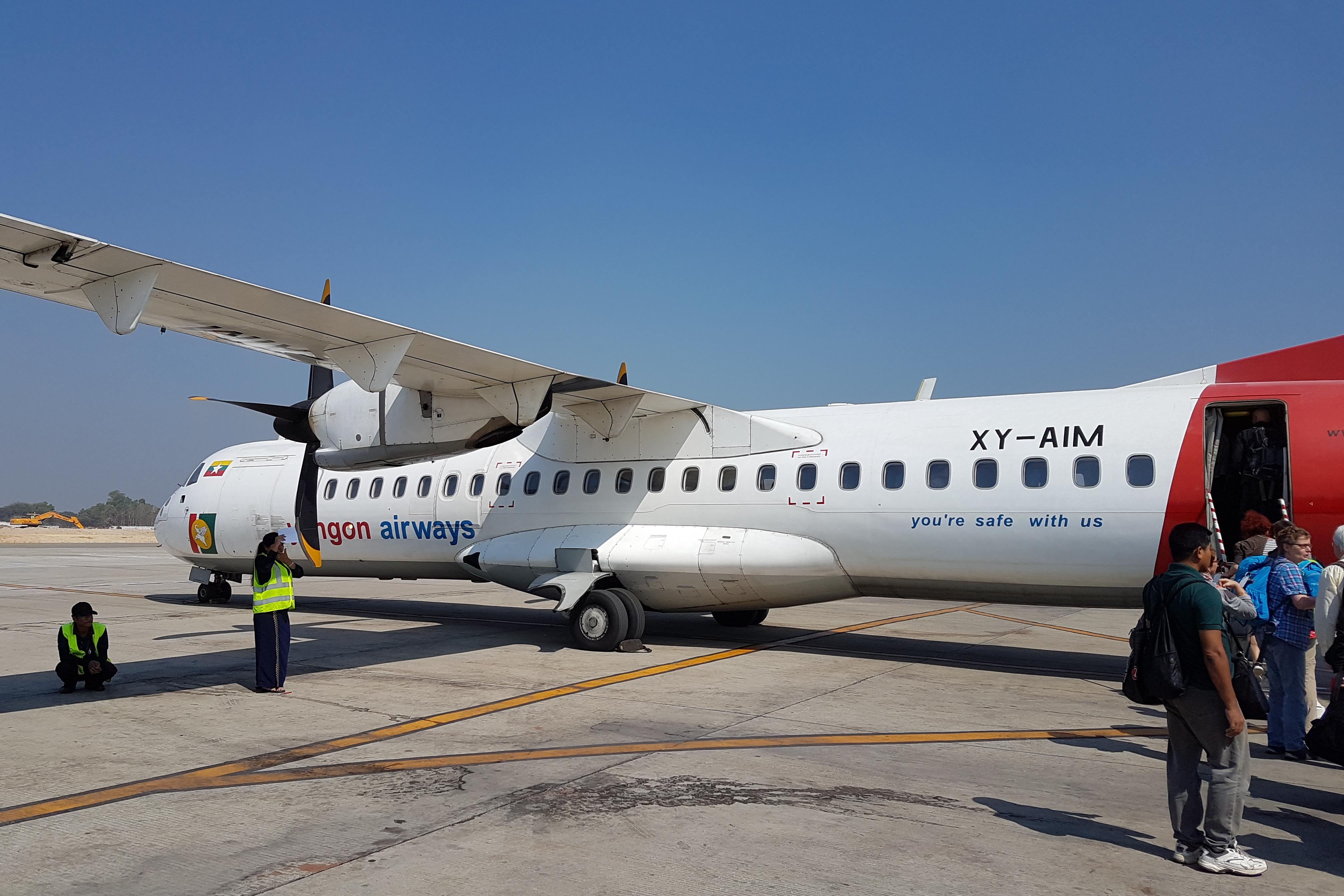 Aircraft XY-AIM of Yangon Airways at Heho Airport